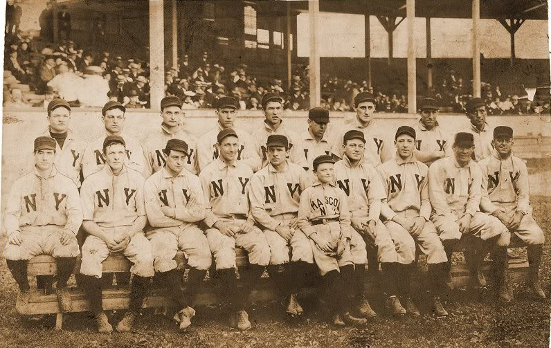 1905 New York Giants baseball teamBack row, left to right: Dummy Taylor, Joe McGinnity, Claude Elliott, Dan McGann, Frank Bowerman, George Browne, Hooks Wiltse, Art Devlin, Sam MertesFront row, left to right: Roger Bresnahan, Christy Mathewson, Mike Donlin, Boileryard Clarke, John McGraw, mascot, Bill Dahlen, Red Ames, Sammy Strang, Billy Gilbert